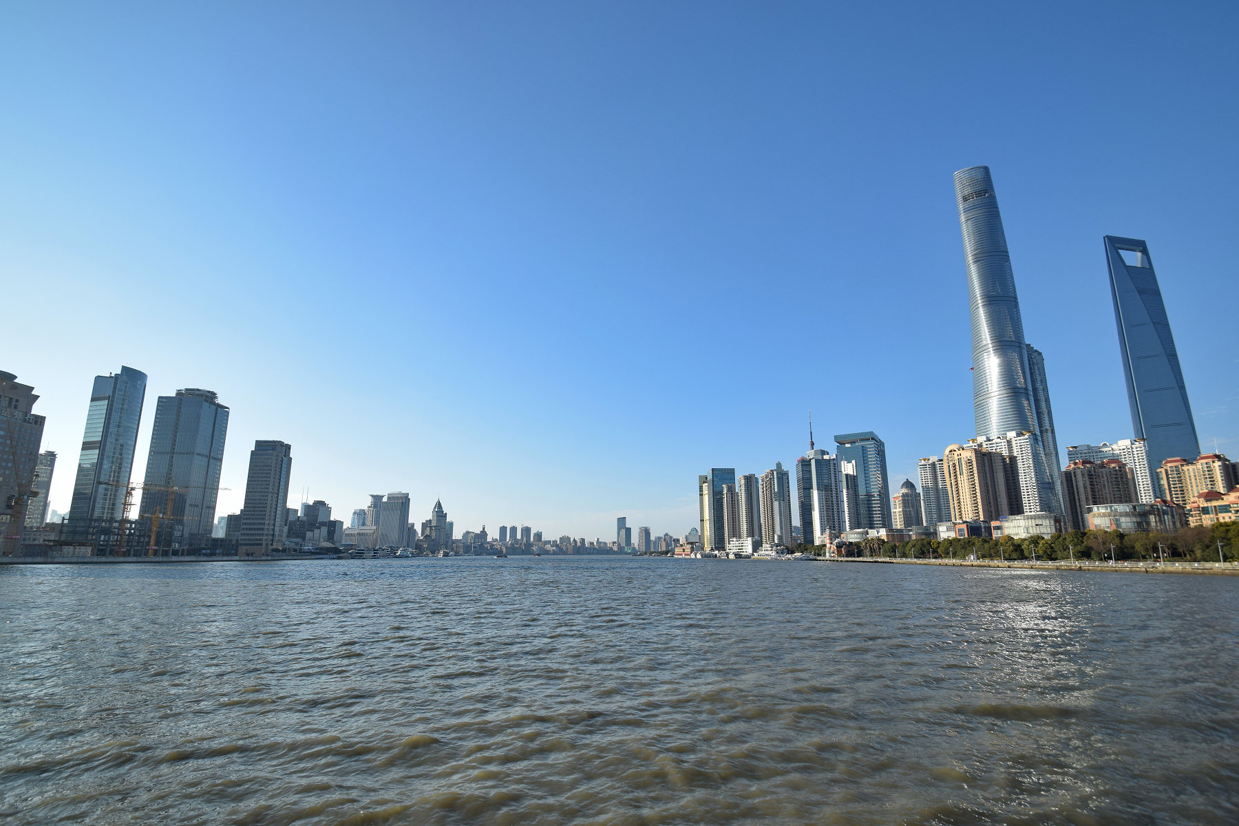 Huangpu River, Shanghai